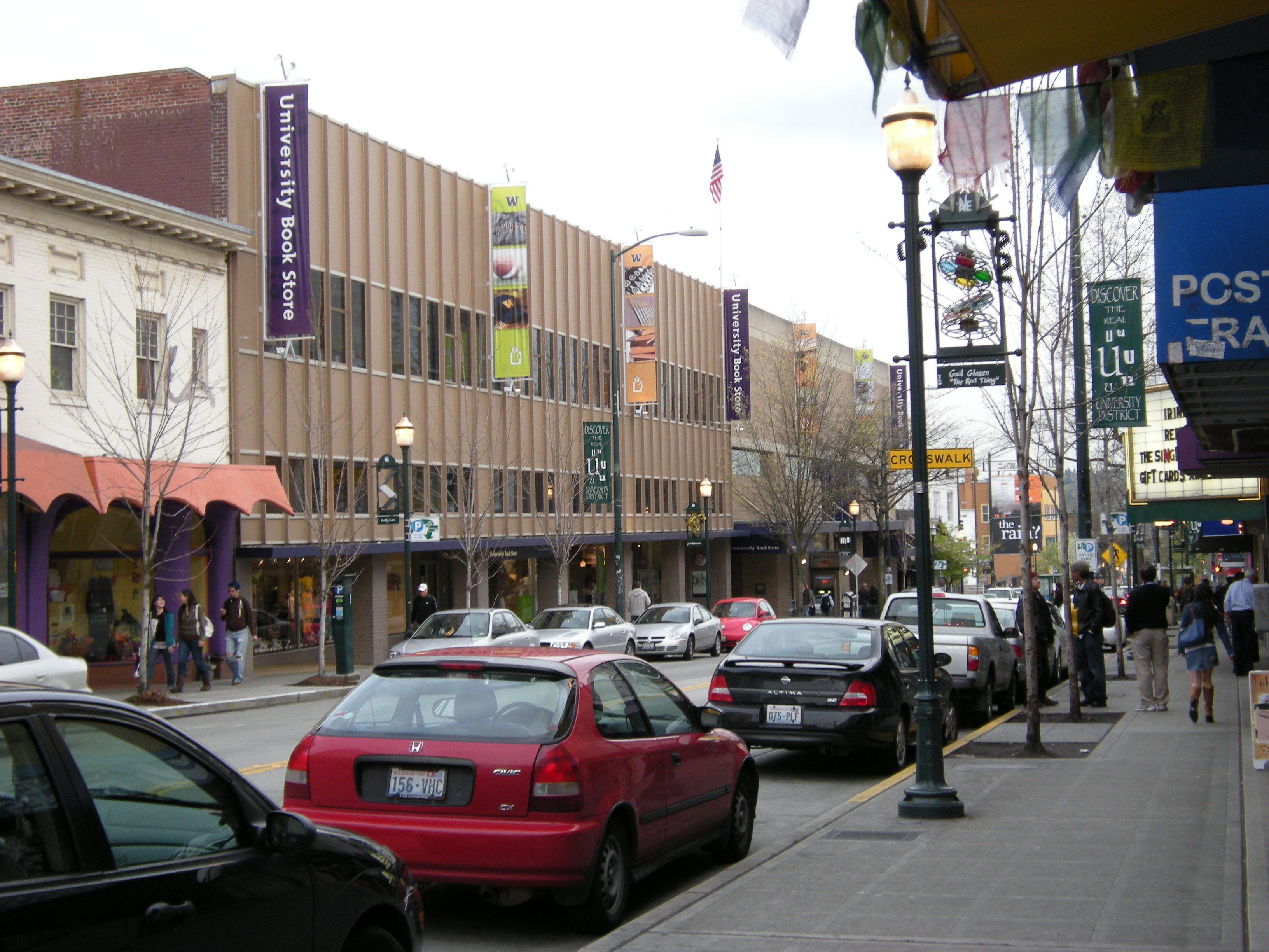 University Book Store, 4326 University Way NE, University District, Seattle, Washington.